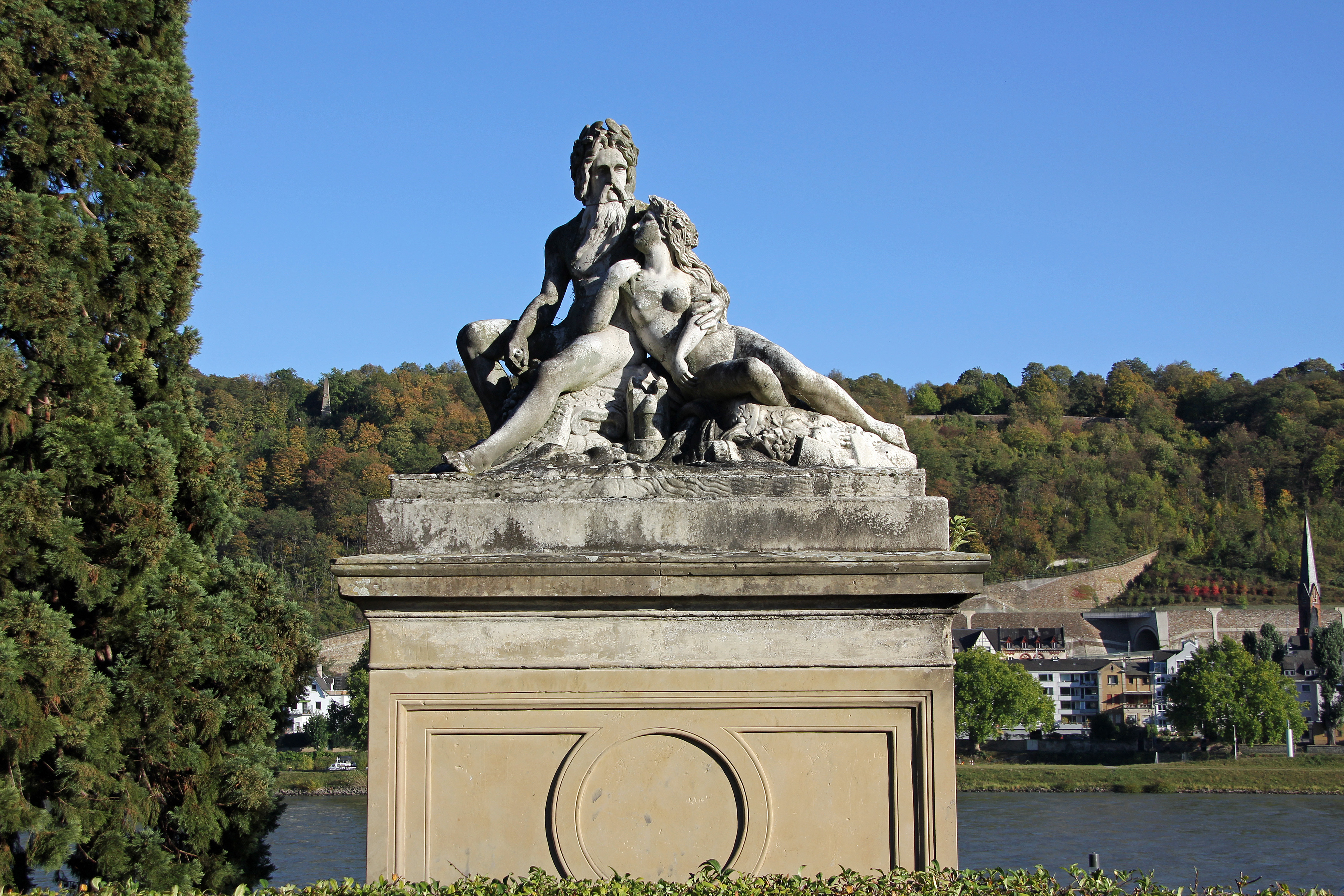 Federal Horticultural Show 2011 in Koblenz - Electoral Palace